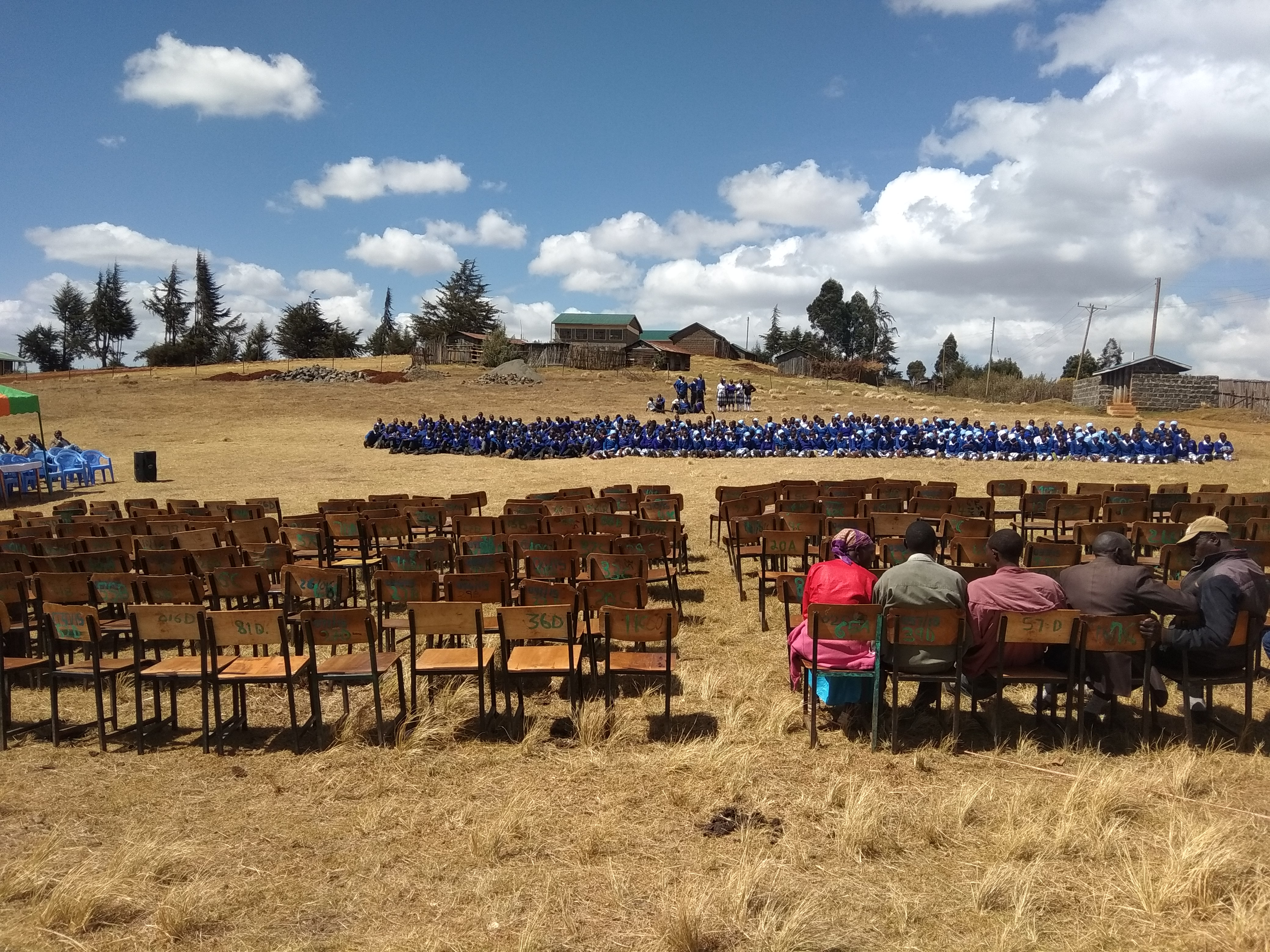 This is an image with the theme "Play" from: Kenya